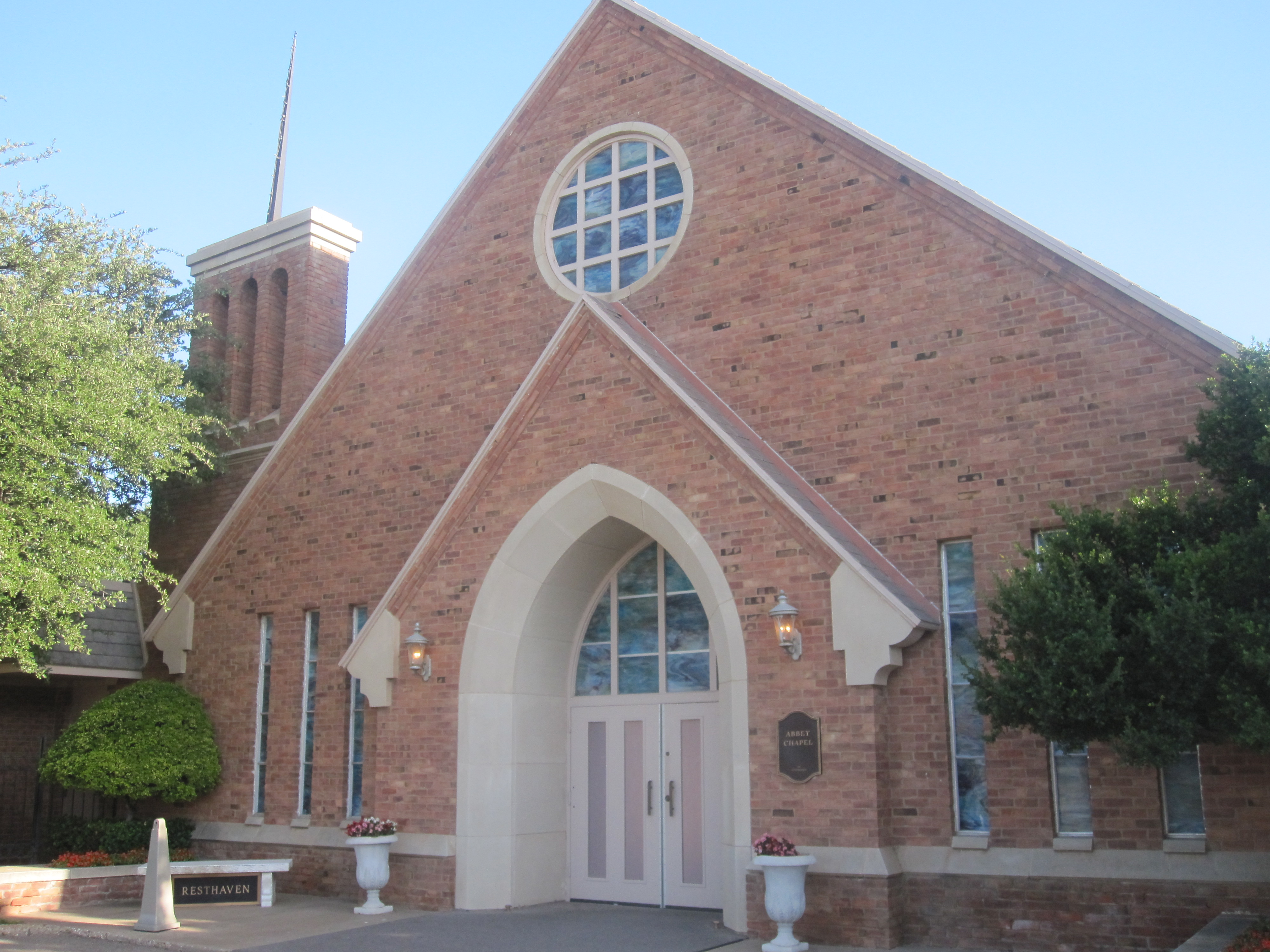 I took photo with Canon camera in Lubbock, TX.